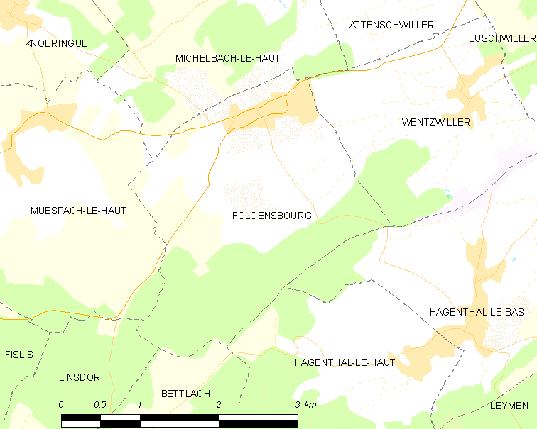 Map of French municipality